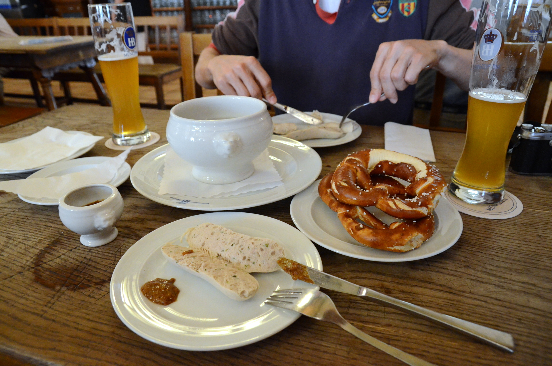 Weisswurst, Brezen and Weissbier: the quintessential Bavarian combination of boiled veal sausages with bread pretzels, glasses of wheat beer and sweet mustard as a condiment for the sausages. Here at the Hofbräuhaus in Munich